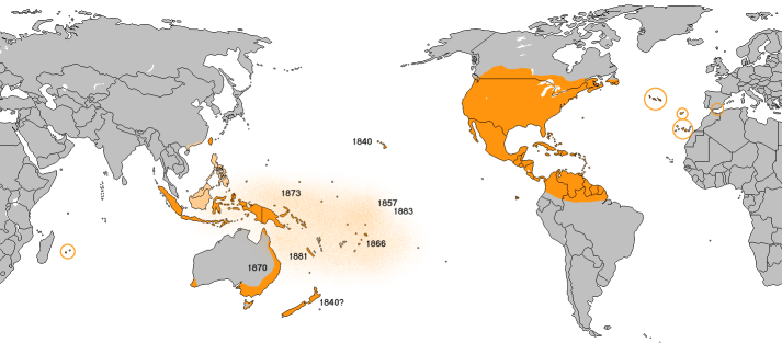 Distribution of Monarch Butterfly Danaus plexippus (small, with dates)